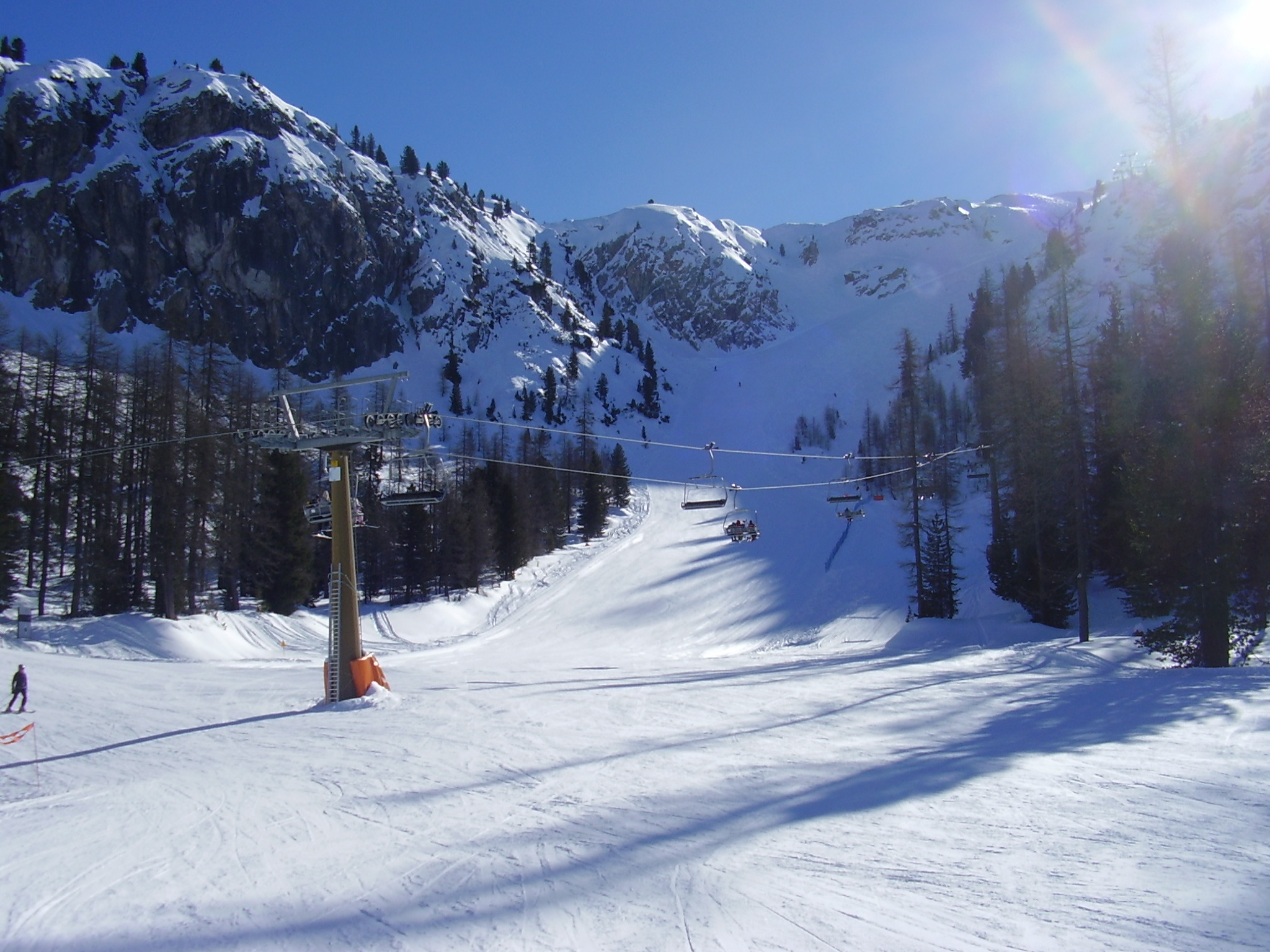 The Franchetti skiing-piste on Mount Faloria, in the Dolomites, in Cortina d'Ampezzo, Italy.